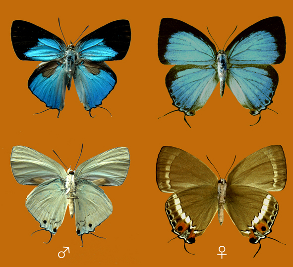 Matsutaroa iljai, male and female, Negros Island